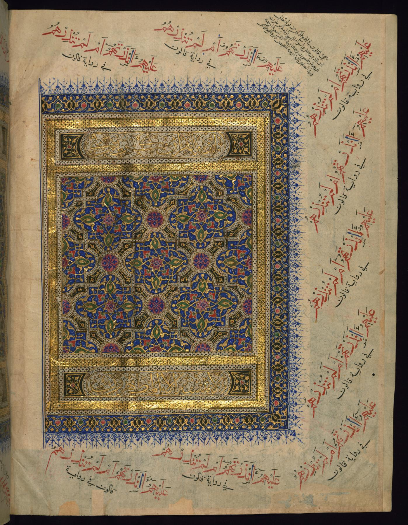 This folio from Walters manuscript W.563 is the right side of a double-page illuminated frontispiece with an inscription in the cartouches in gold reading: innahu la-Qur'an karim ... nazil min rabb al-'alamin (Chapter 56 [Surat al-waqi'ah], verses 77-80). Written in the margins is the phrase alayhim andhartahum am lam tunzirhum (Chapter 2 [Surat al-baqarah], verse 6) in the transmission (riwayat) of Qalun, written obliquely and repeated 18 times.